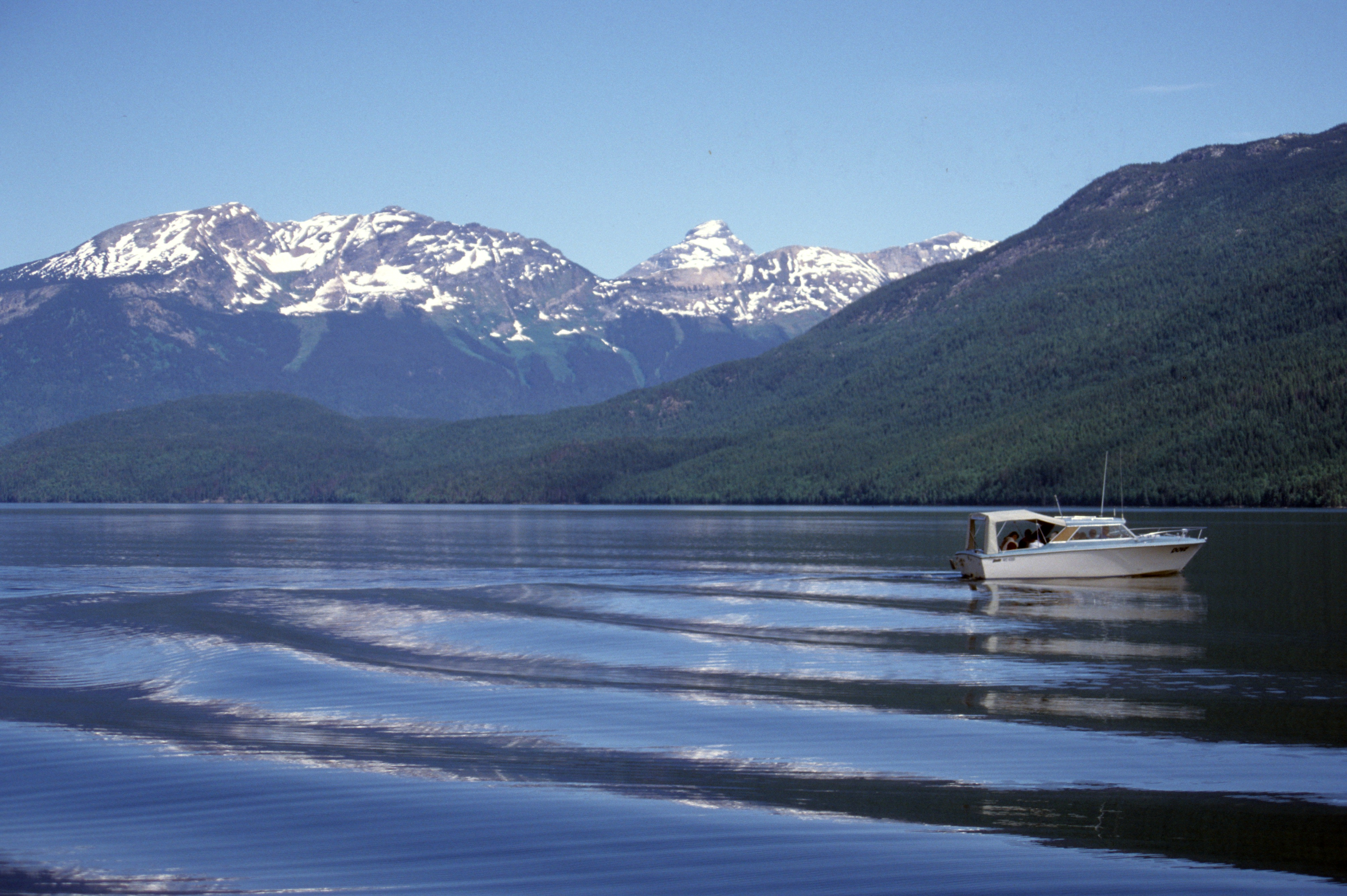 Clearwater Lake, British Columbia. Peaks are (L-R) Huntley, Garnet and Tryfan.